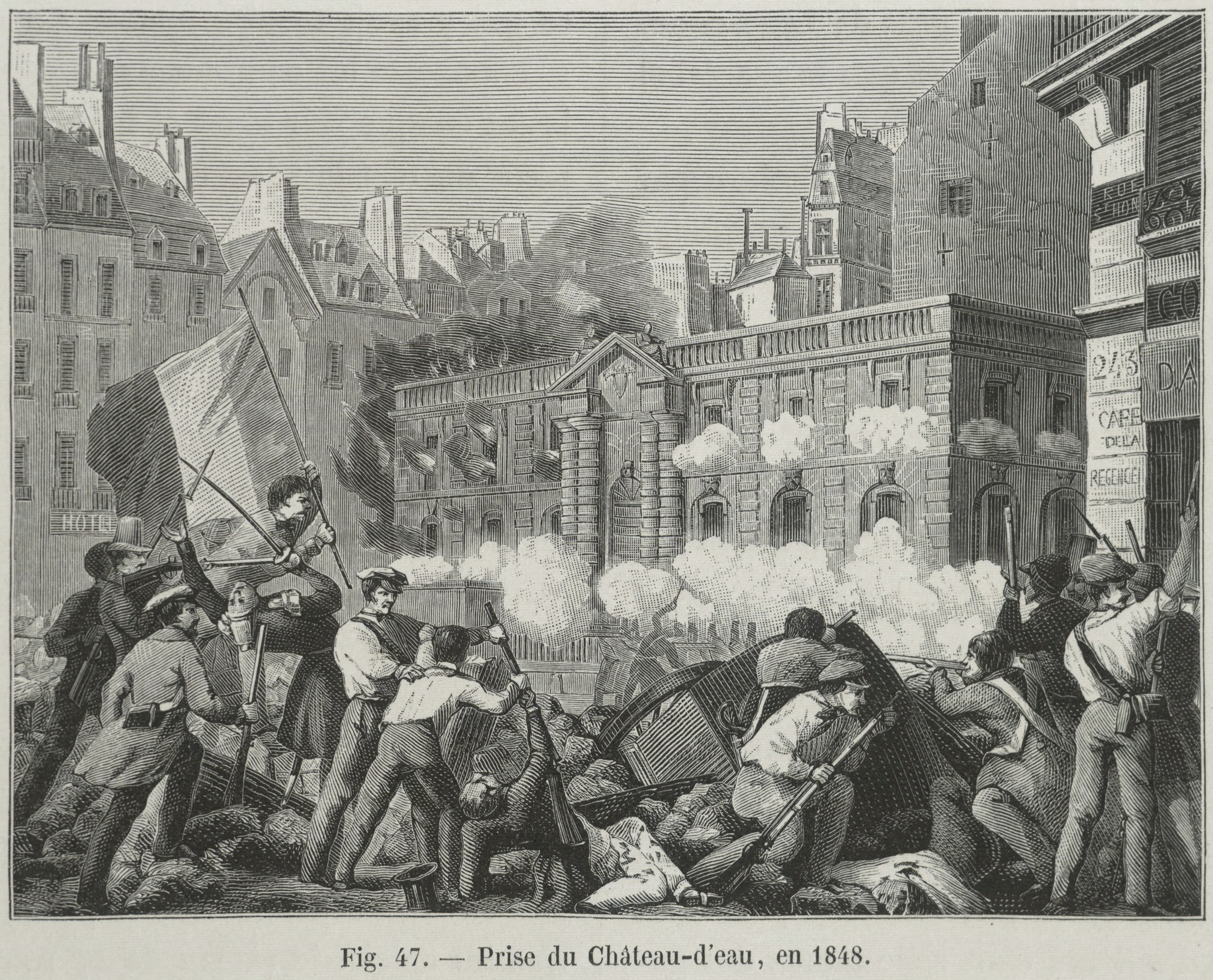 During the revolution of 1848, revolutionaries invaded the Palais-Royal, and completely destroyed the neighboring Château d'eau. The municipal guards that defended the building were killed as well.